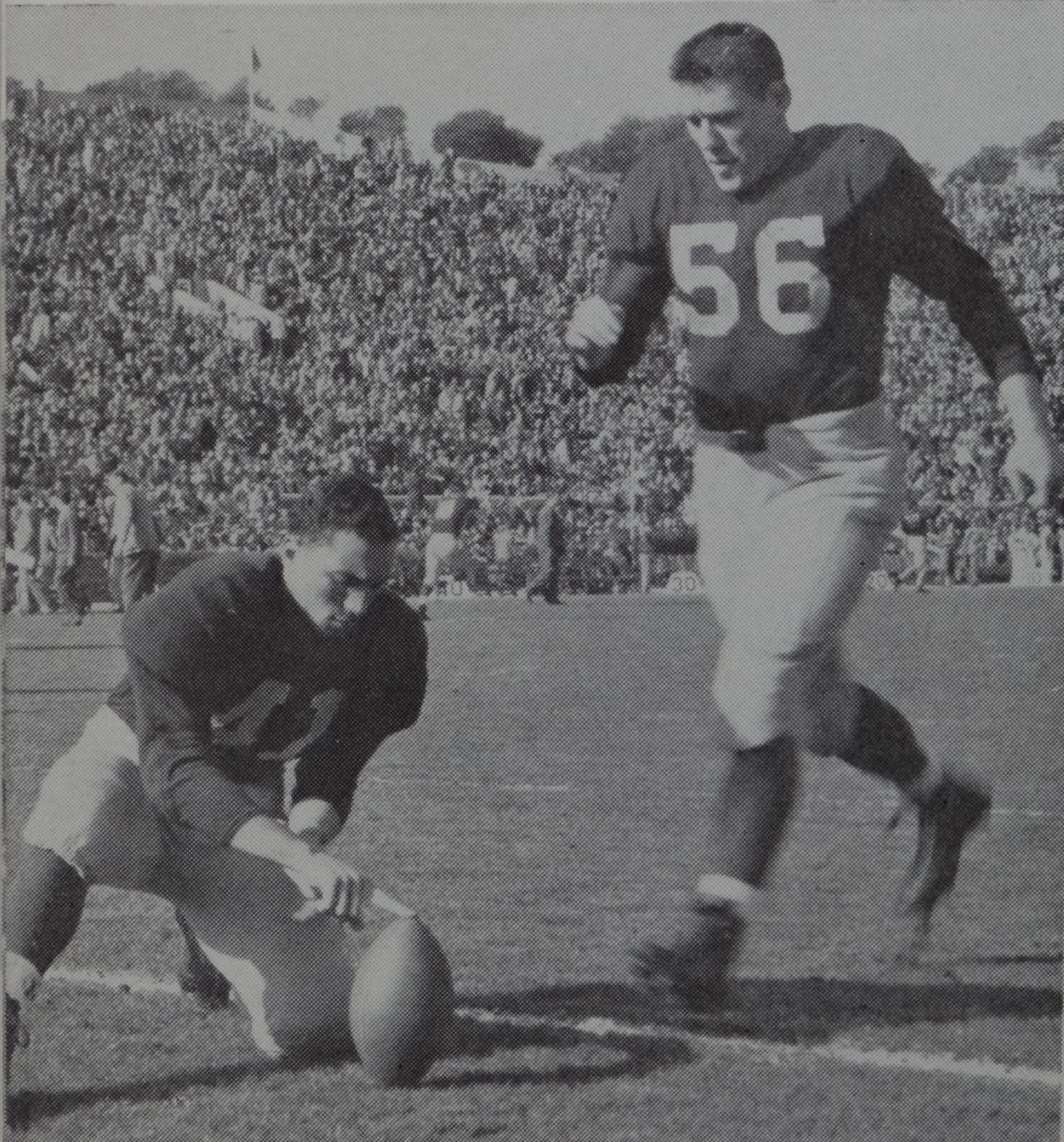 Photograph of University of Michigan place-kicker Jim Brieske Photograph of University of Michigan place-kicker Jim Brieske